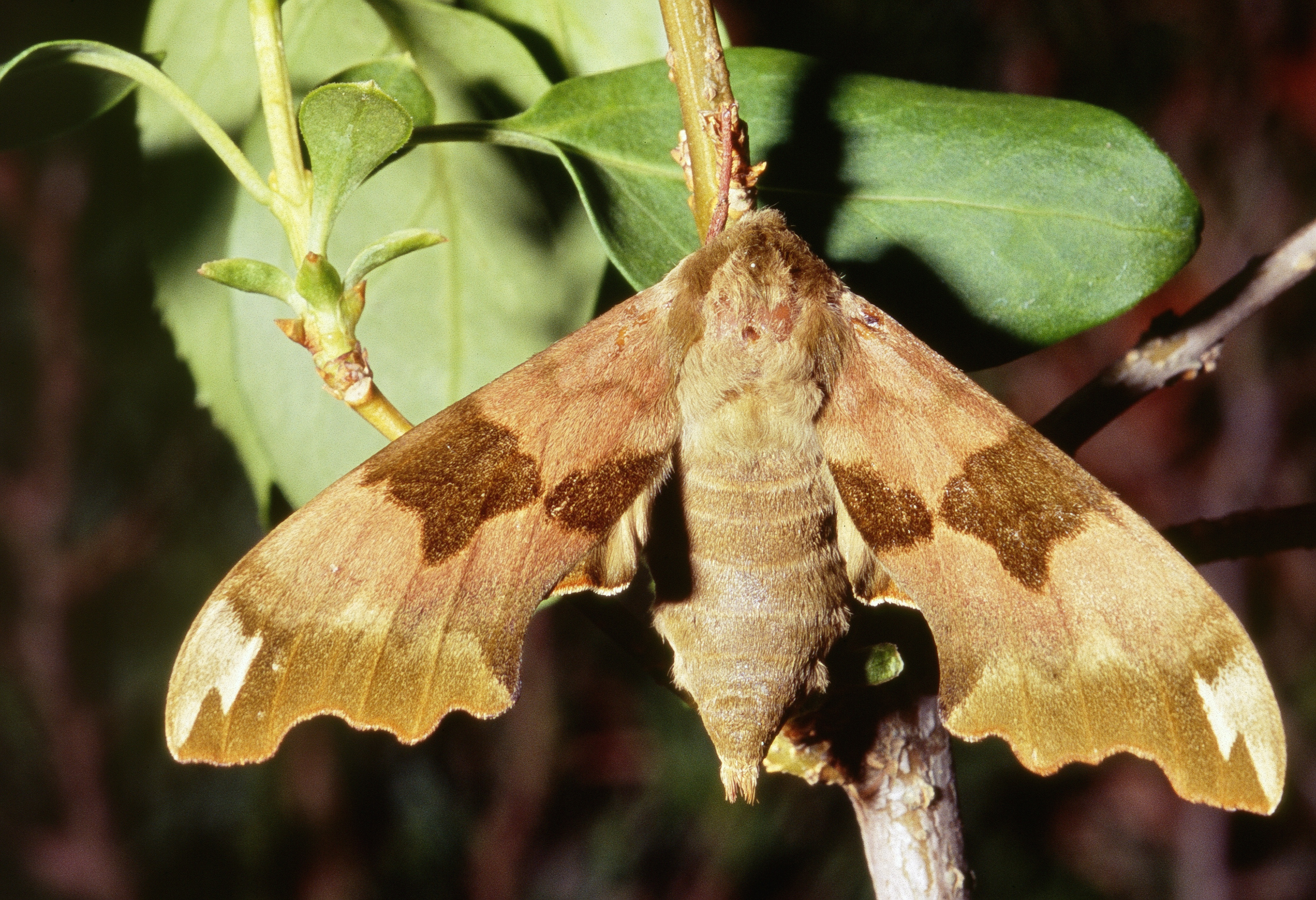 Imago butterfly Mimas tiliae (french:Sphinx du tilleul) bredding cage. From Trévières 14 Basse-Normandie in Calvados, in France.